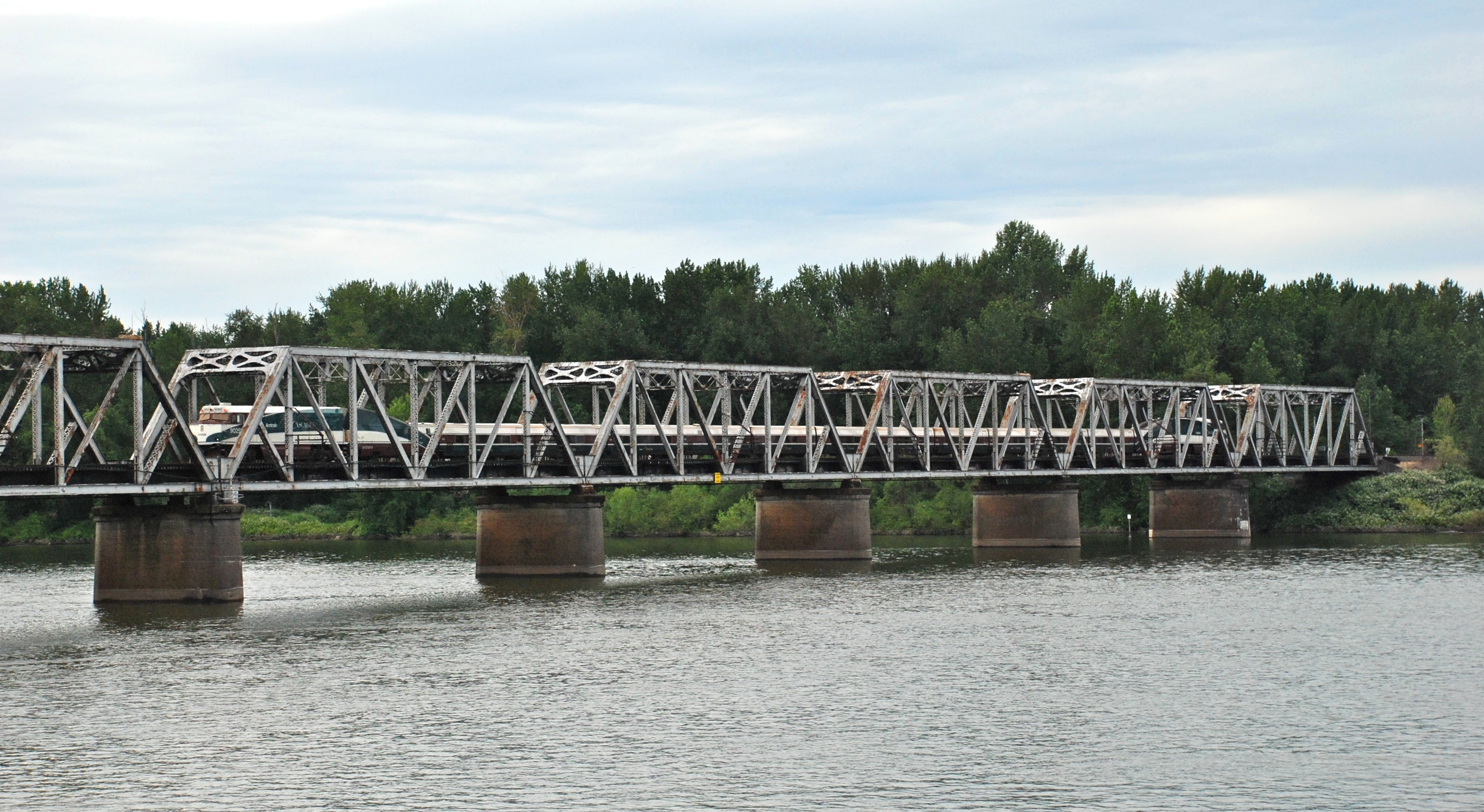 A northbound Amtrak Cascades train (going away from the camera here) crosses the fixed-span section of the Oregon Slough Railroad Bridge, also known as BNSF Railway Bridge 8.8, in Portland, Oregon. The 1908 bridge also has a swing-span section, which is out of view to the left of this photo. Hayden Island is in the background.